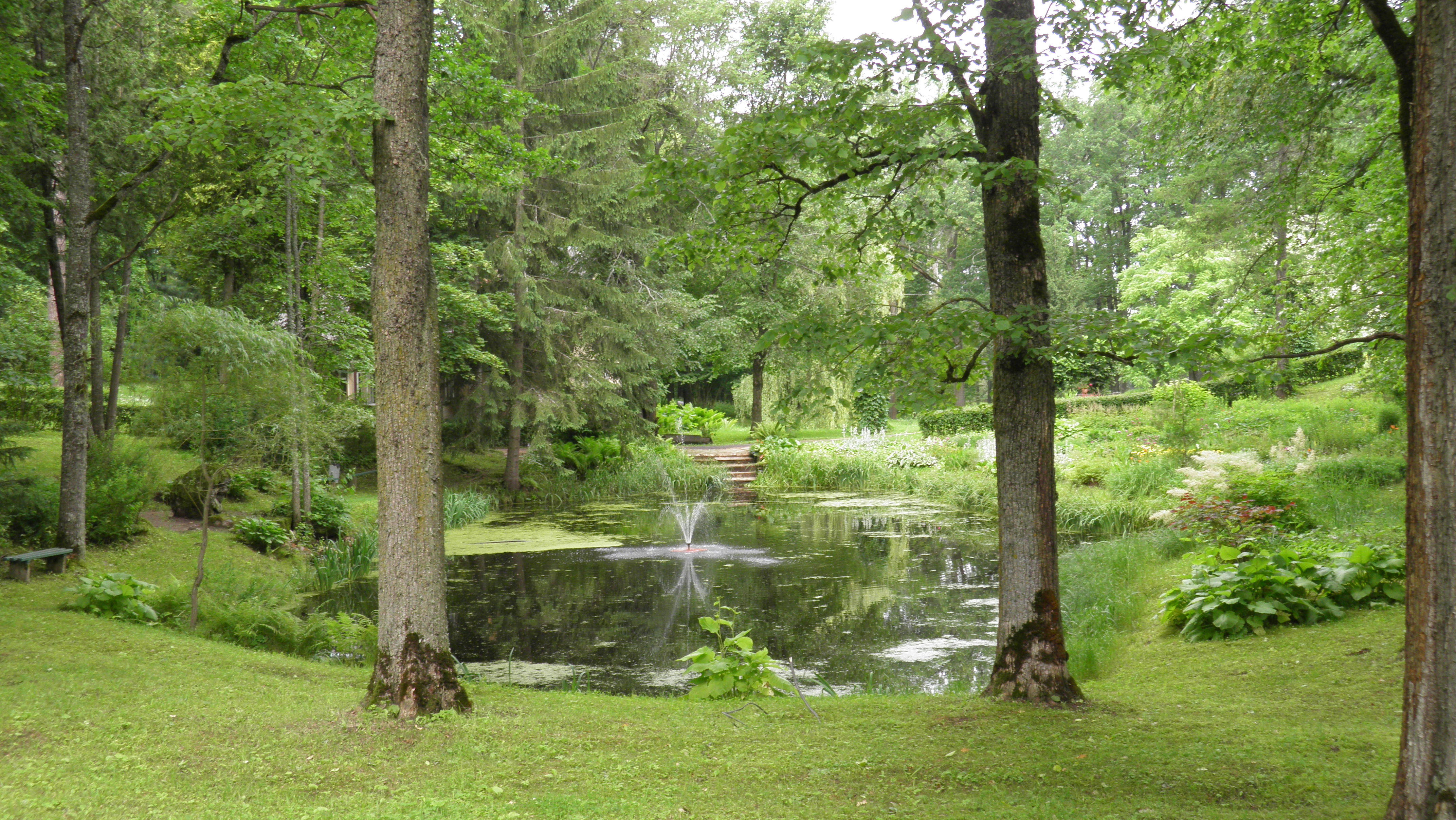 park